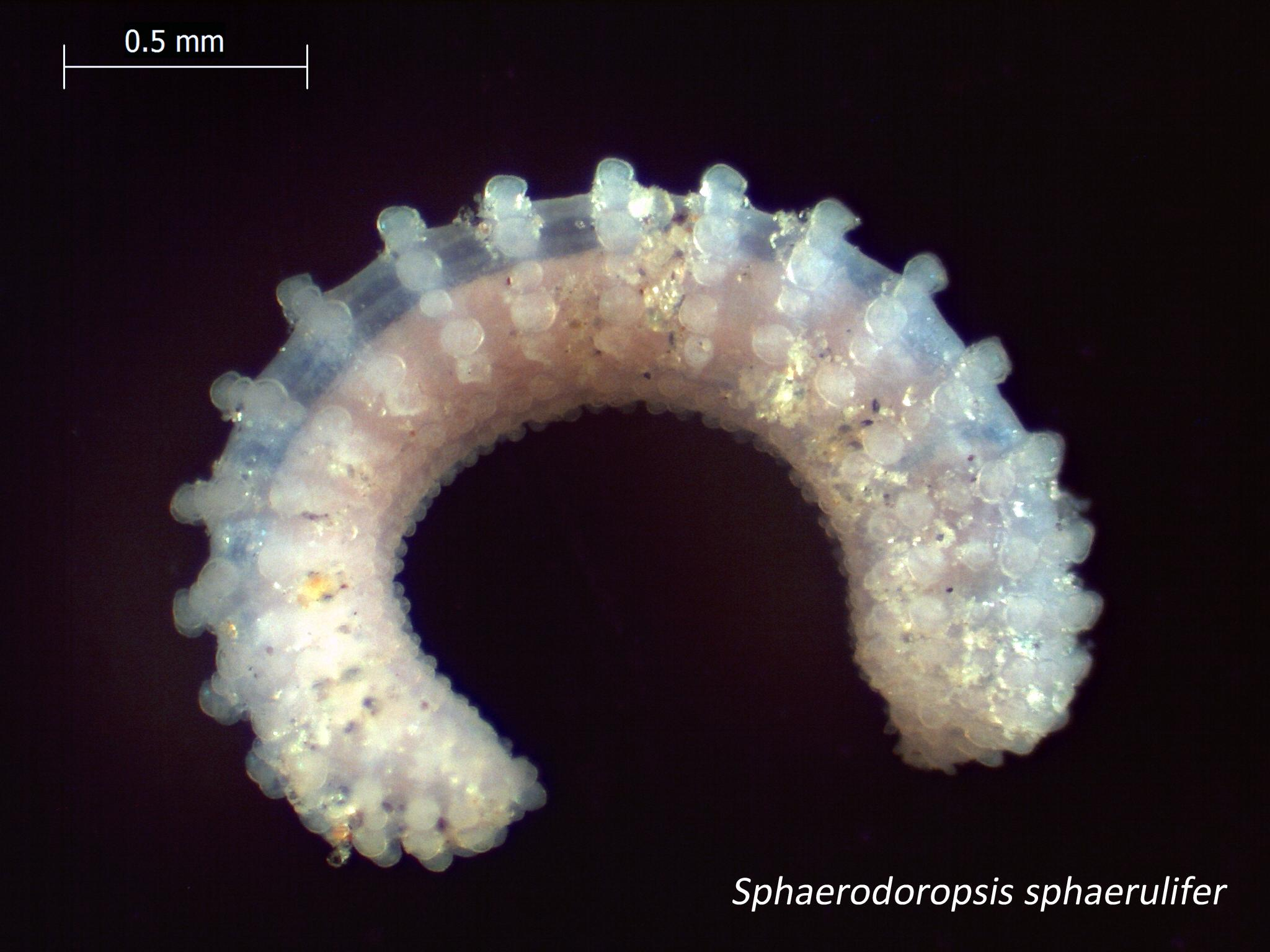 Collected from Puget Sound sediments and photographed by the Washington State Department of Ecology’s Marine Sediment Monitoring Team. For more information about this team’s work visit